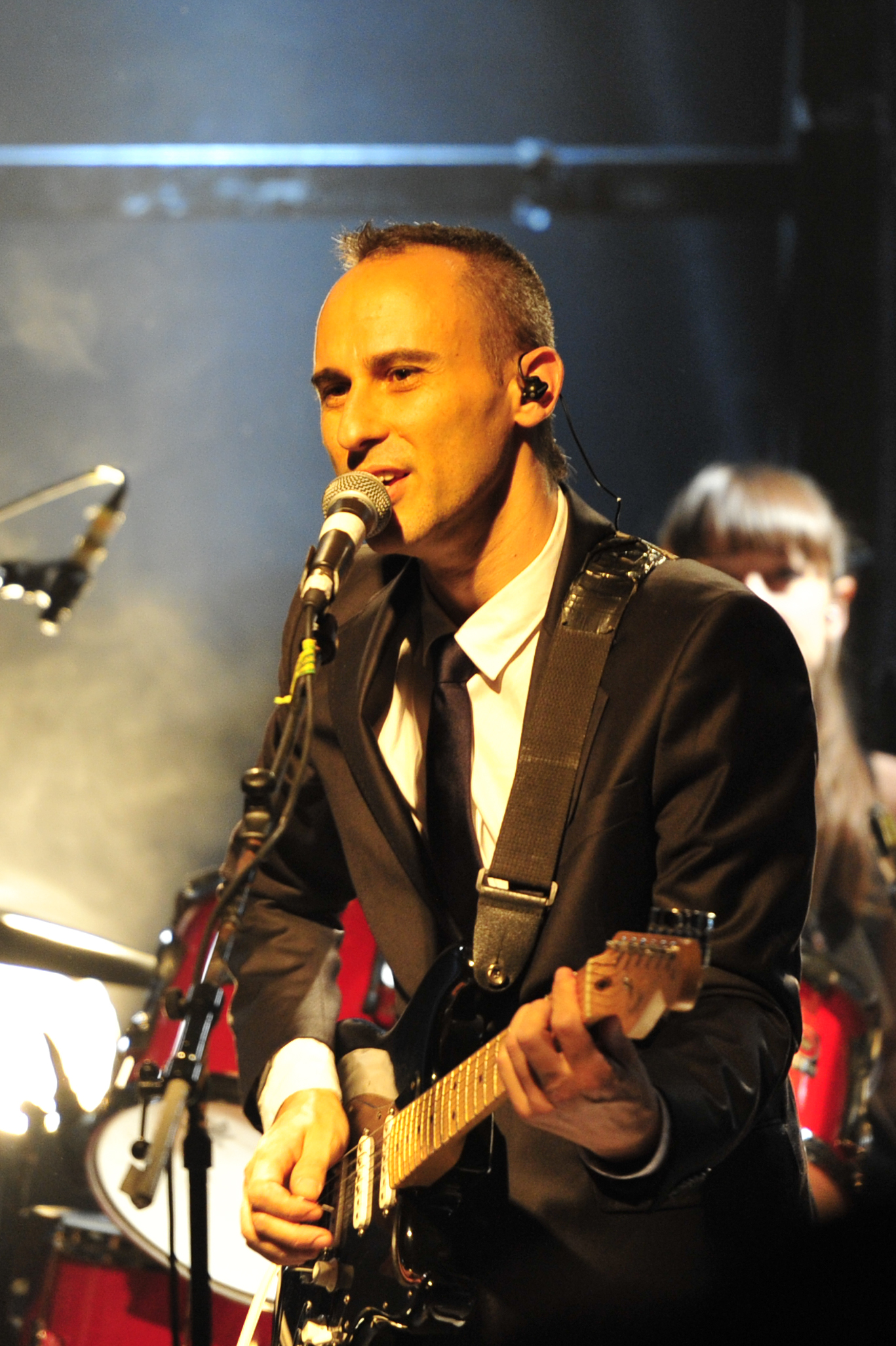 Assaf Amdursky on stage at "The Barby" in Tel Aviv, Israel